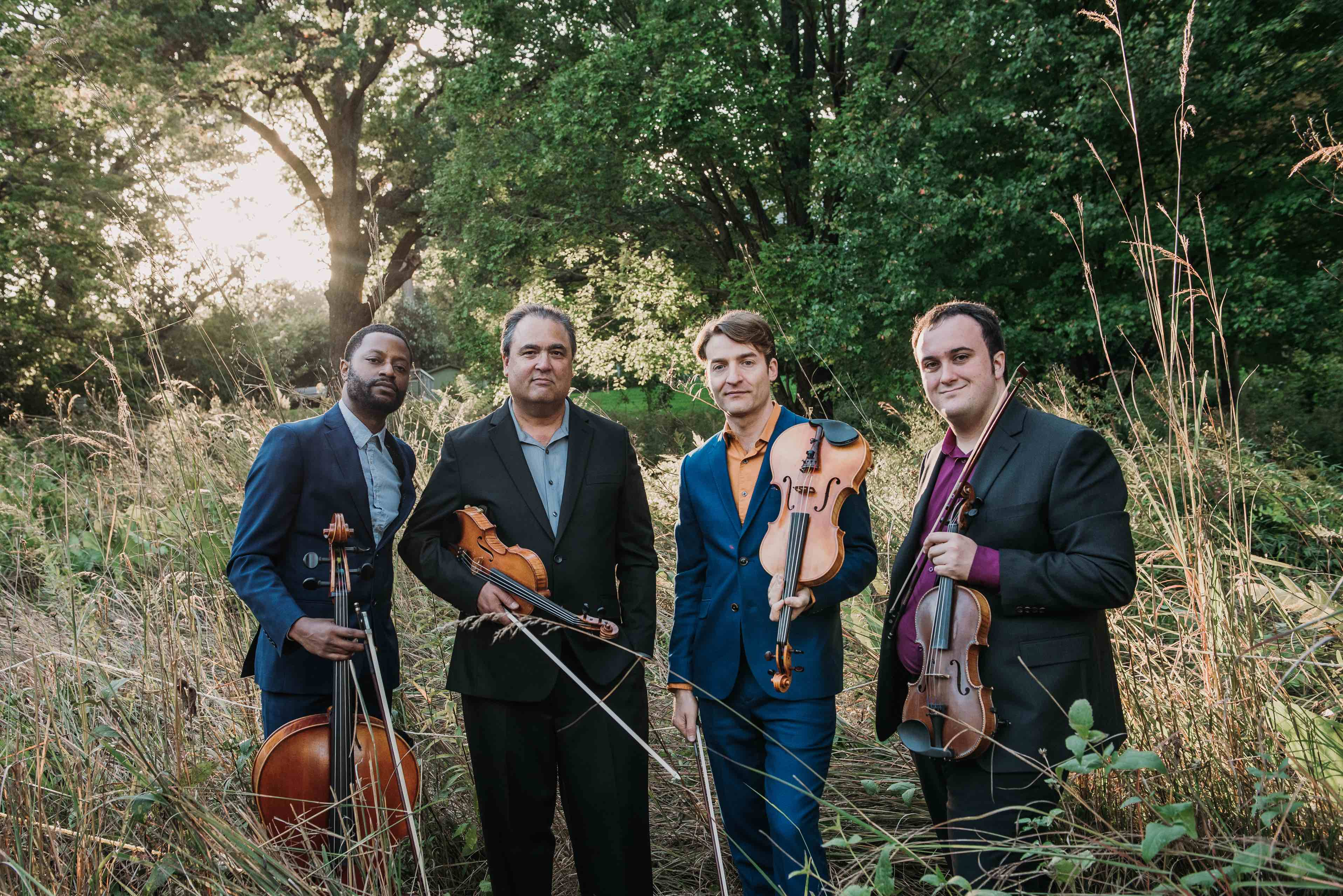 Turtle Island Quartet in Rock Island, IL